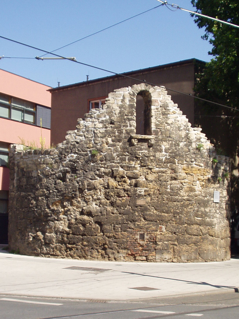 This picture shows the "anatomy tower" in Jena where J.W. Goethe and C.J. Loder discovered the "Zwischenkieferknochen" in 1784.It was taken on tuesday the 7th of september 2005 by myself.